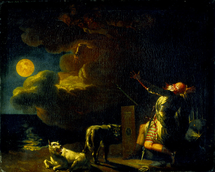 Fingal Sees the Ghosts of His Ancestors in the Moonlight